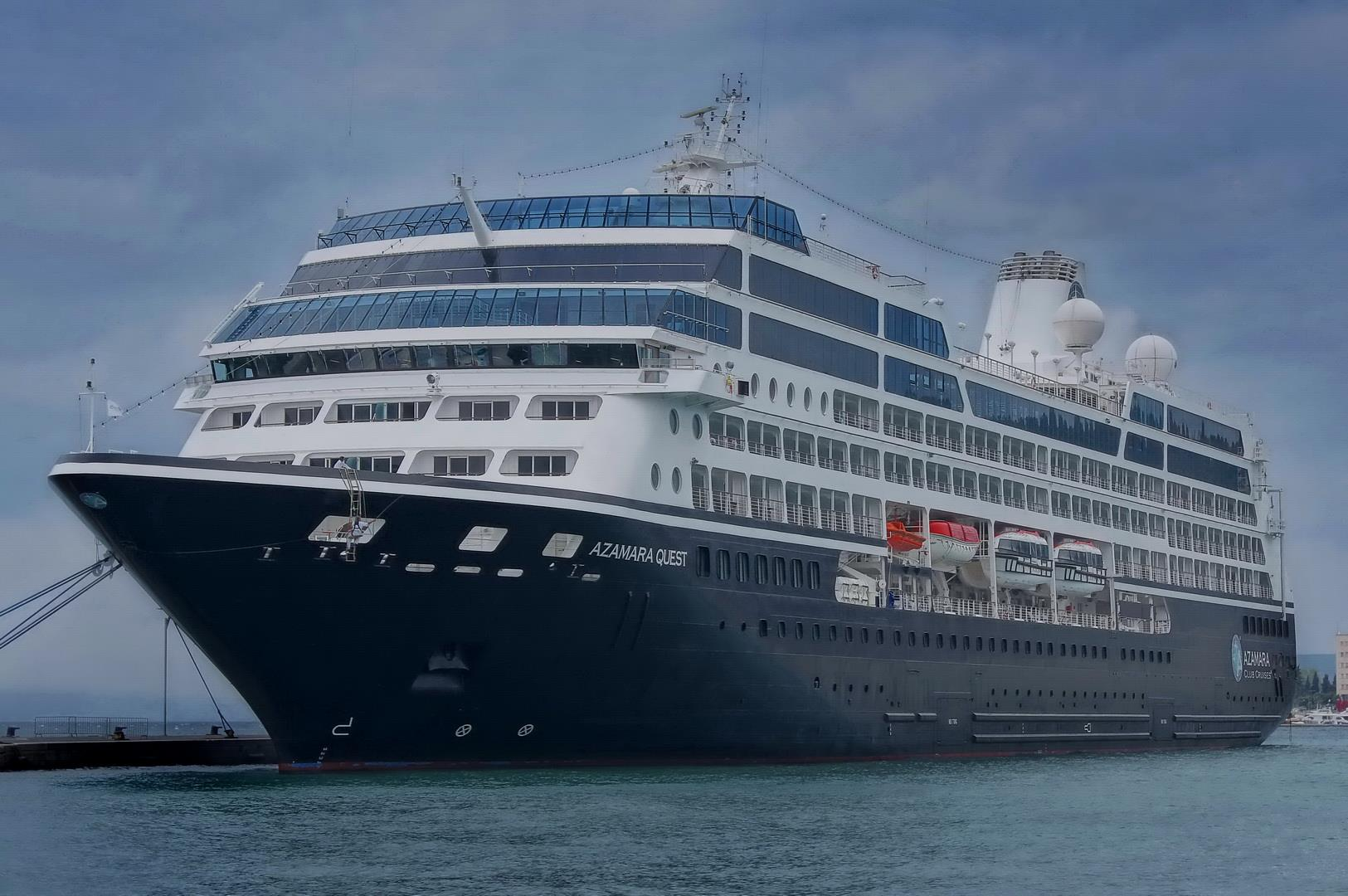 Azamara Quest, cruise ship, built 2000, IMO 9210218, as seen in Split, Croatia, on 29 September 2013, at CEST 16:00:18. The position of the ship was: N 43°30'17", E 16°26'22"; Heading: 89°